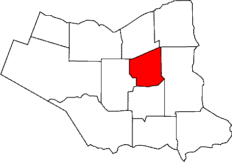 Map of Thorold